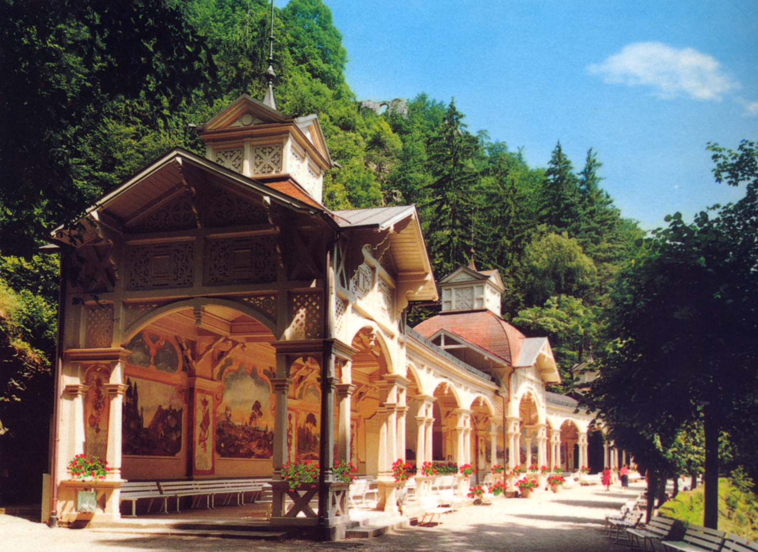 Bad Berneck in Fichtelgebirge: new colonnade in spa gardens